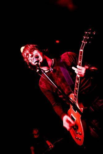 tsavo the band in concert